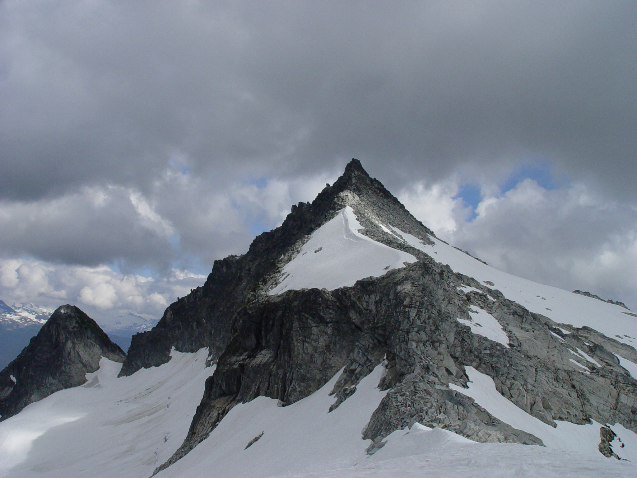 Early evening light on the Cypress Peak (2083m). This is the start of the ridge scramble, with the crux in the foreground.